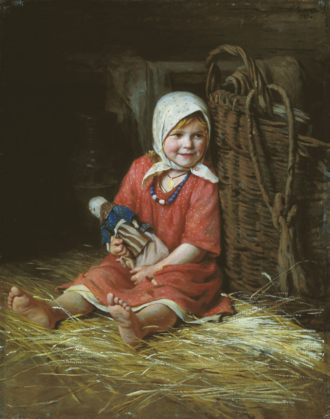 Kirill Vikentevich Lemokh (Karl Lemoch) (1841-1910) Varya